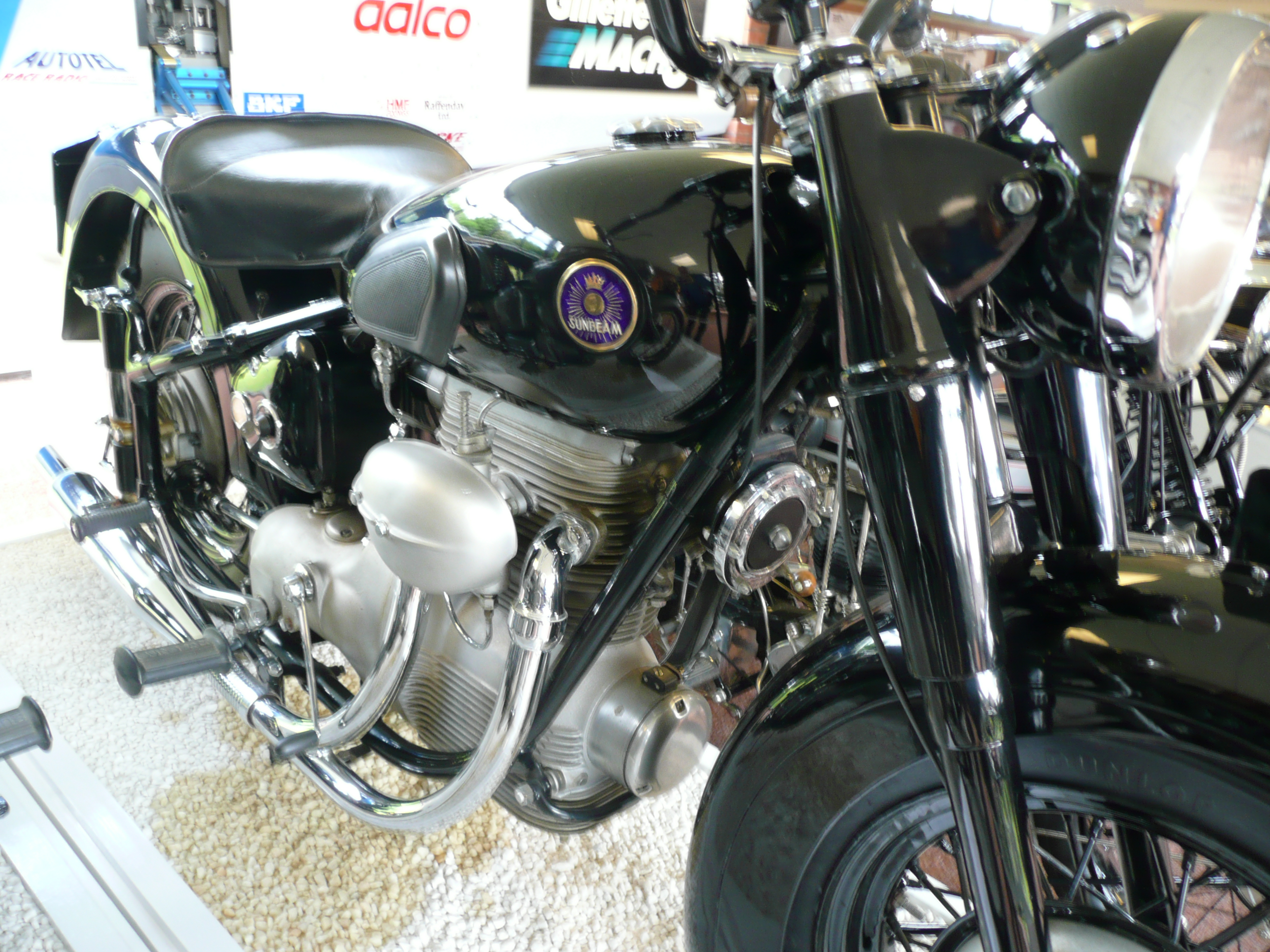 Sunbeam S7 500cc 1947 at the National Motorcycle Mueseum